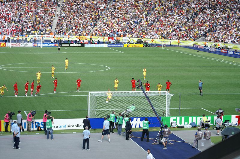 Andriy Shevchenko scores a penalty in FIFA World Cup Germany 2006 match Ukraine - Tunisia